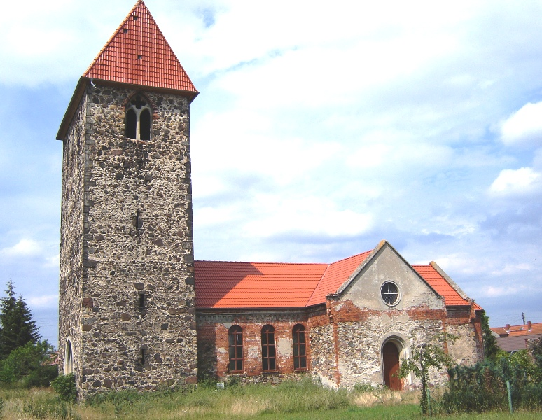 Church in Möckern-Büden (Saxony-Anhalt)